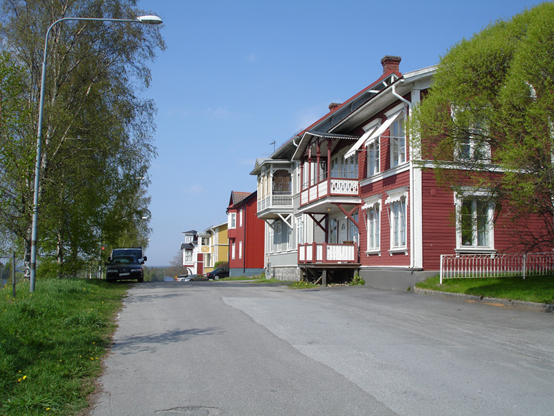 The northern part of Gamla Storgatan in Djupvik, Umeå municipality, northern Sweden.